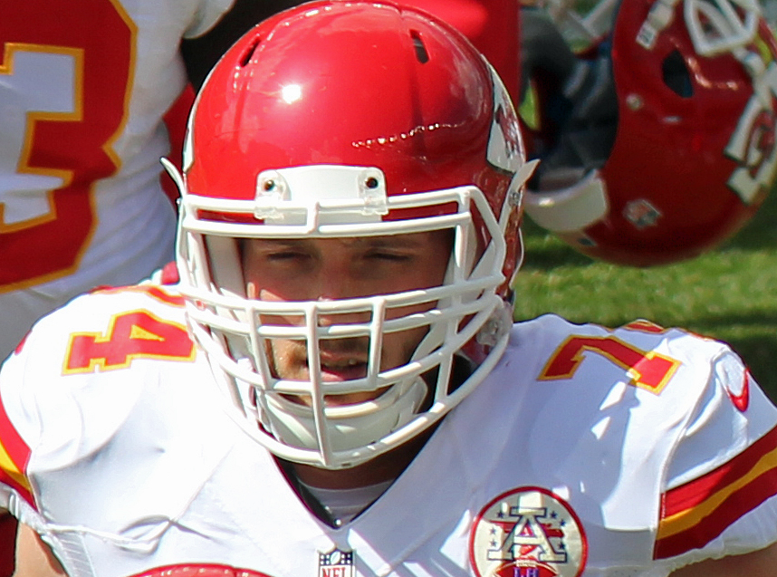 Jeffrey Linkenbach, a player on the National Football League.